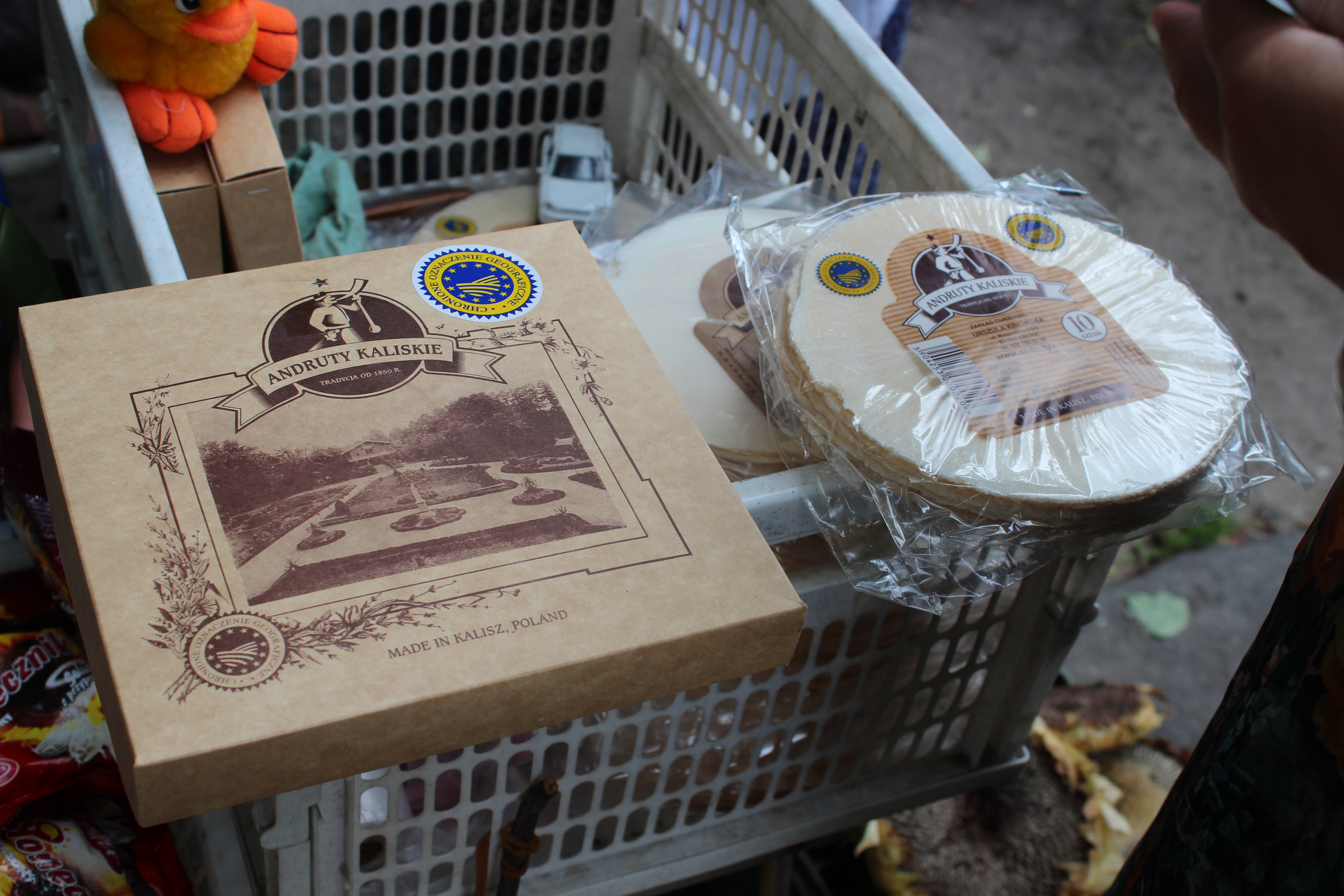 Kalisz